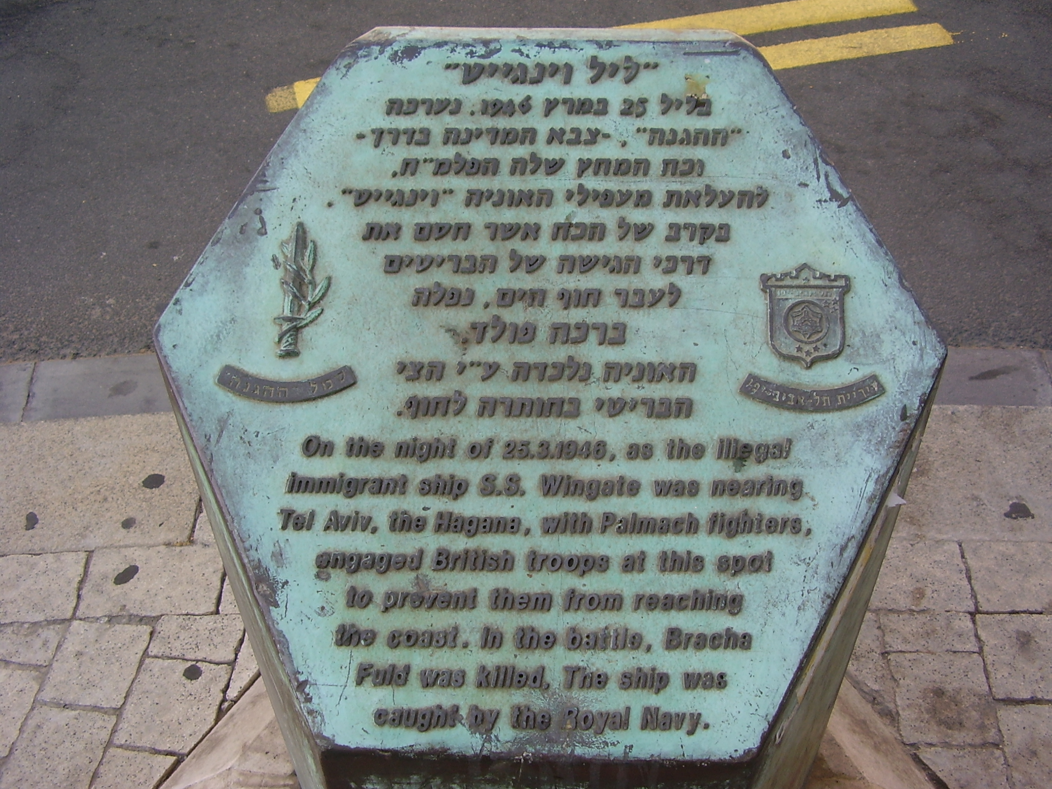 Hagana memorial in Tel Aviv עמוד זיכרון ל"ליל וינגייט" ולברכה פולד בתל אביב